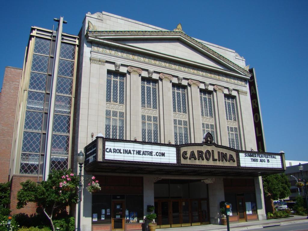 The Carolina Theatre of Greensboro, North Carolina is the city's only extant historic theatre. The Theatre open as a vaudeville and silent movie house on Halloween Night, 1927. This photograph was taken by Charles Brummitt, a theatre board member, on July 19, 2008.